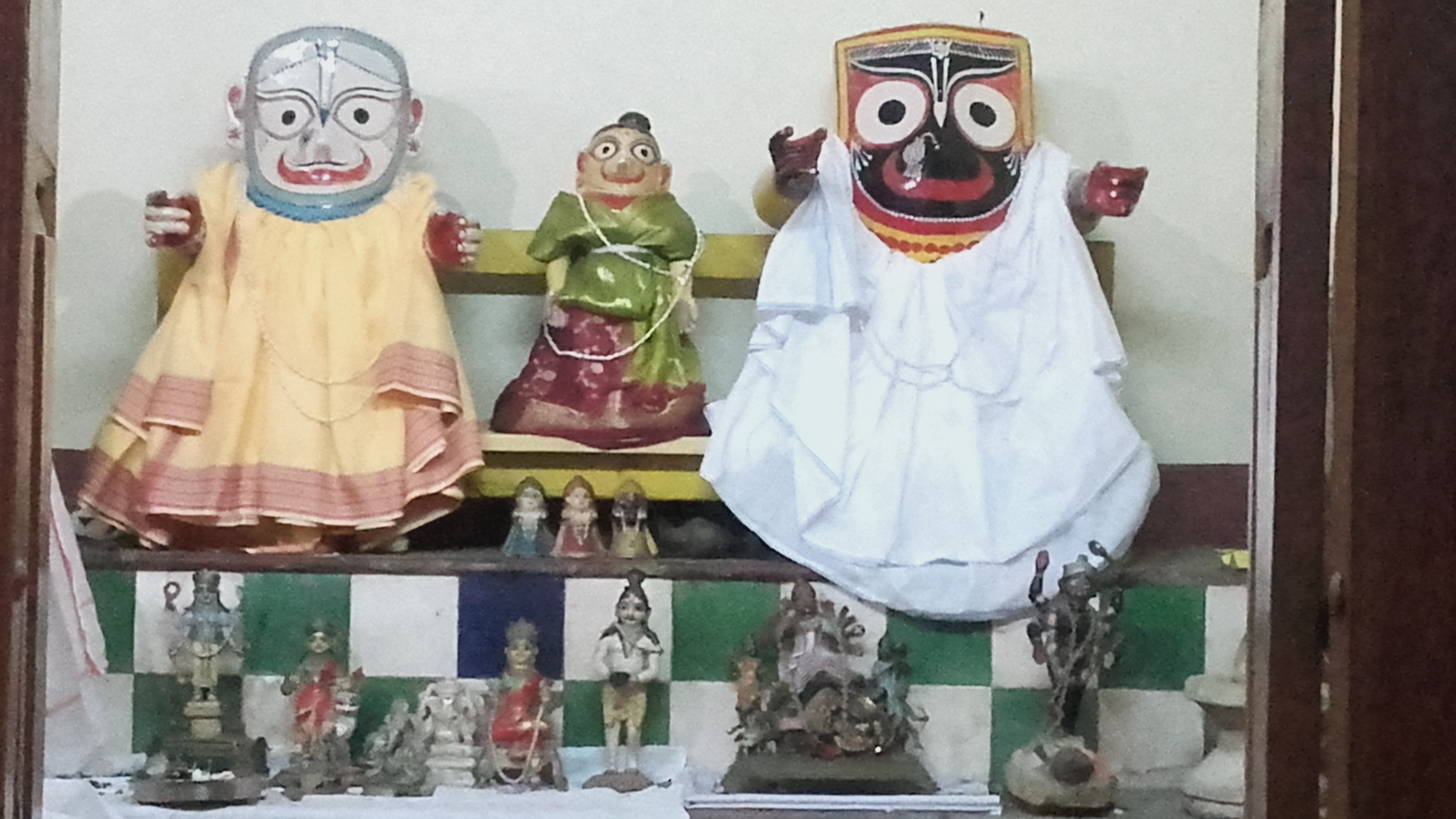 unique idol in Nabadwip Samaj Bari nrisingho bari, here idol have full hand.